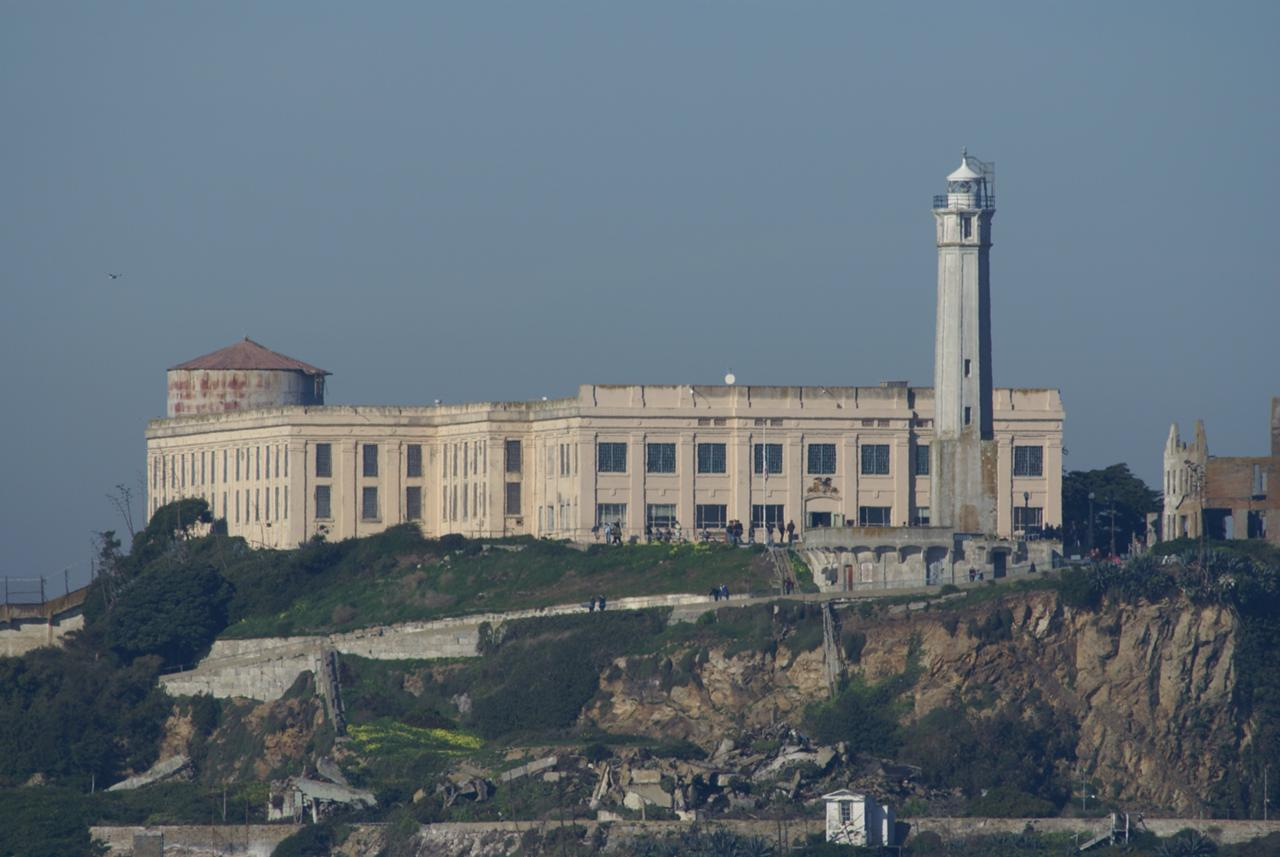 This is a full view of Alcatraz as seen through my 500mm lens from Pier 39.